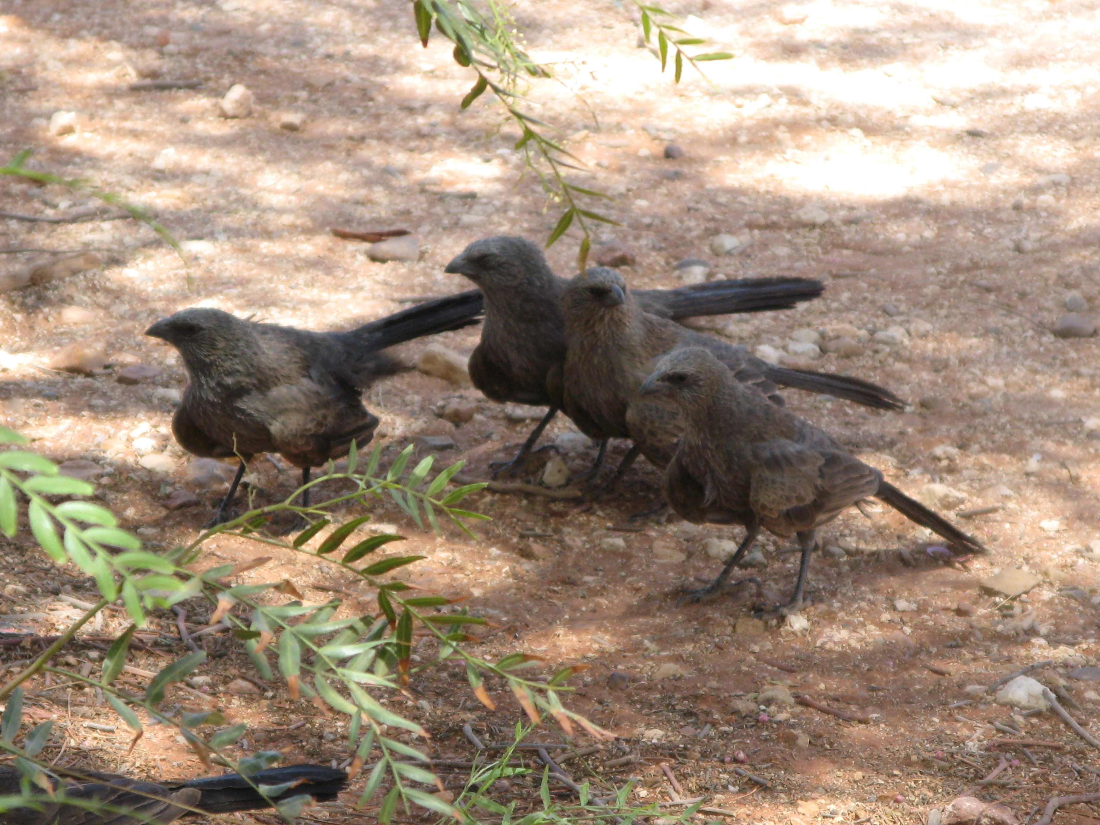 Group of four Apostlebirds, facing in the same direction.